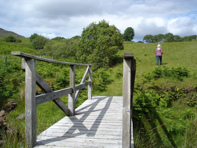 Footbridge on the Bluestack Way. This footbridge on the Bluestack Way crosses a tributary stream of Eany Beg Water near Disert graveyard.